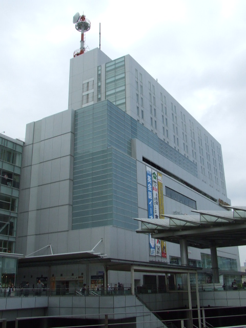 Building of 〝Sagami-Ono Station Square B〟,Sagamihara, Kanagawa, Japan